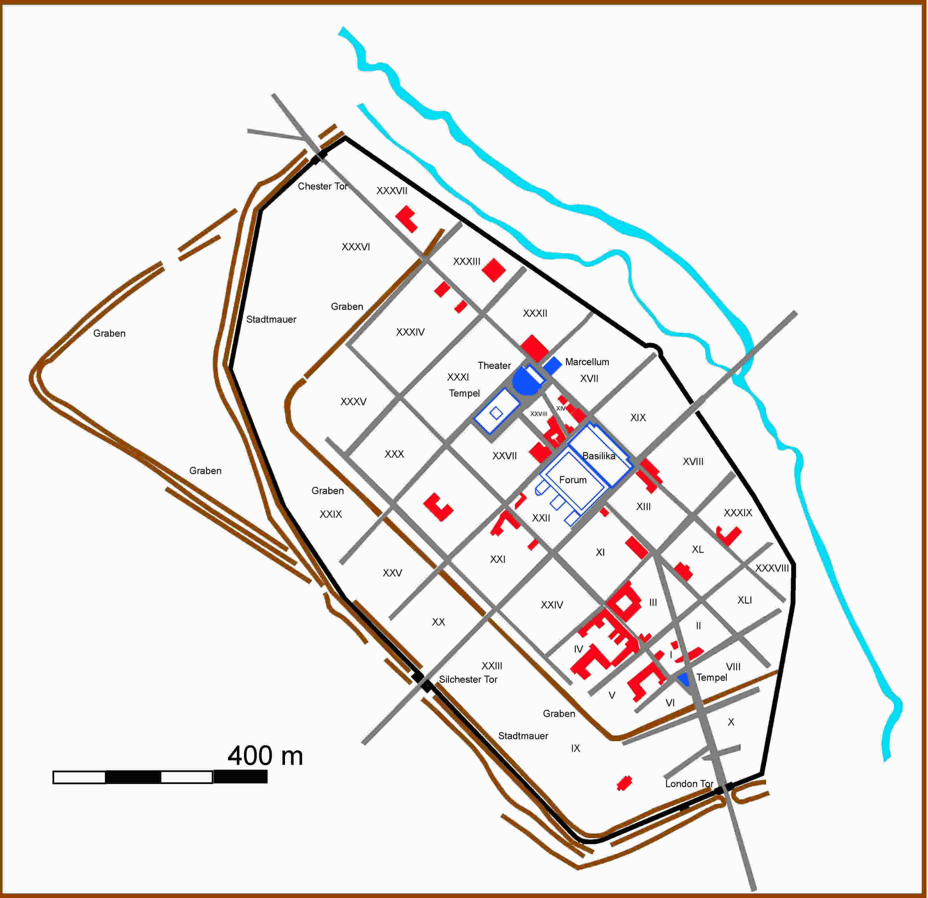 Map of Roman Verulamium (St. Albans)